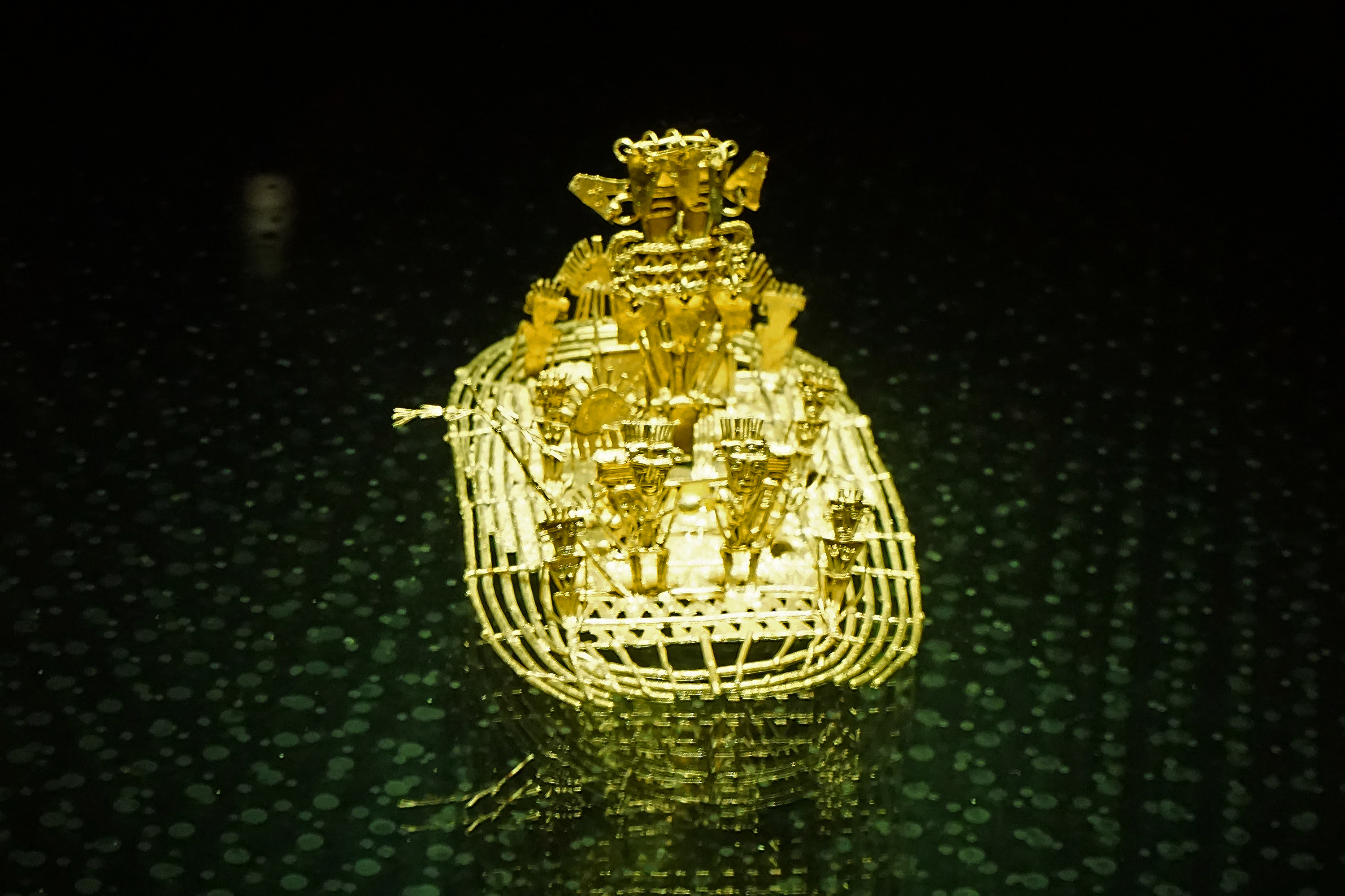 The Muisca Raft is the symbol of El Dorado legend and the most legendary piece exhibited at the Gold Museum of Bogotá, Colombia. This raft made of gold was found in Pasca, Cundinamarca. The raft represents the ceremony that used to take place in Lake Guatavita where the zipa cover his body in gold dust and drop gold and emerald offering into the lake.